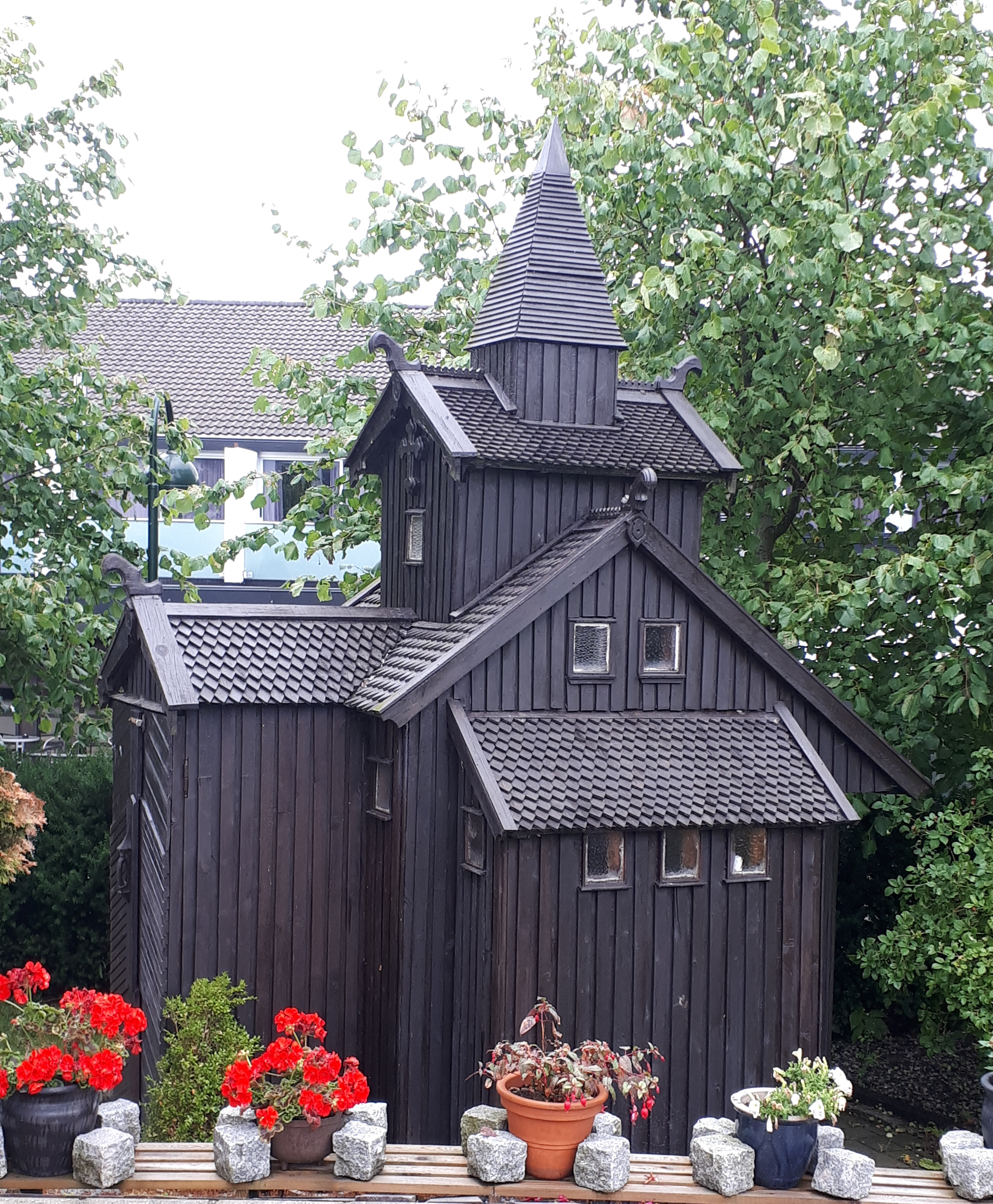 Tjensvoll stave Church from 1999. It is a metodist church.